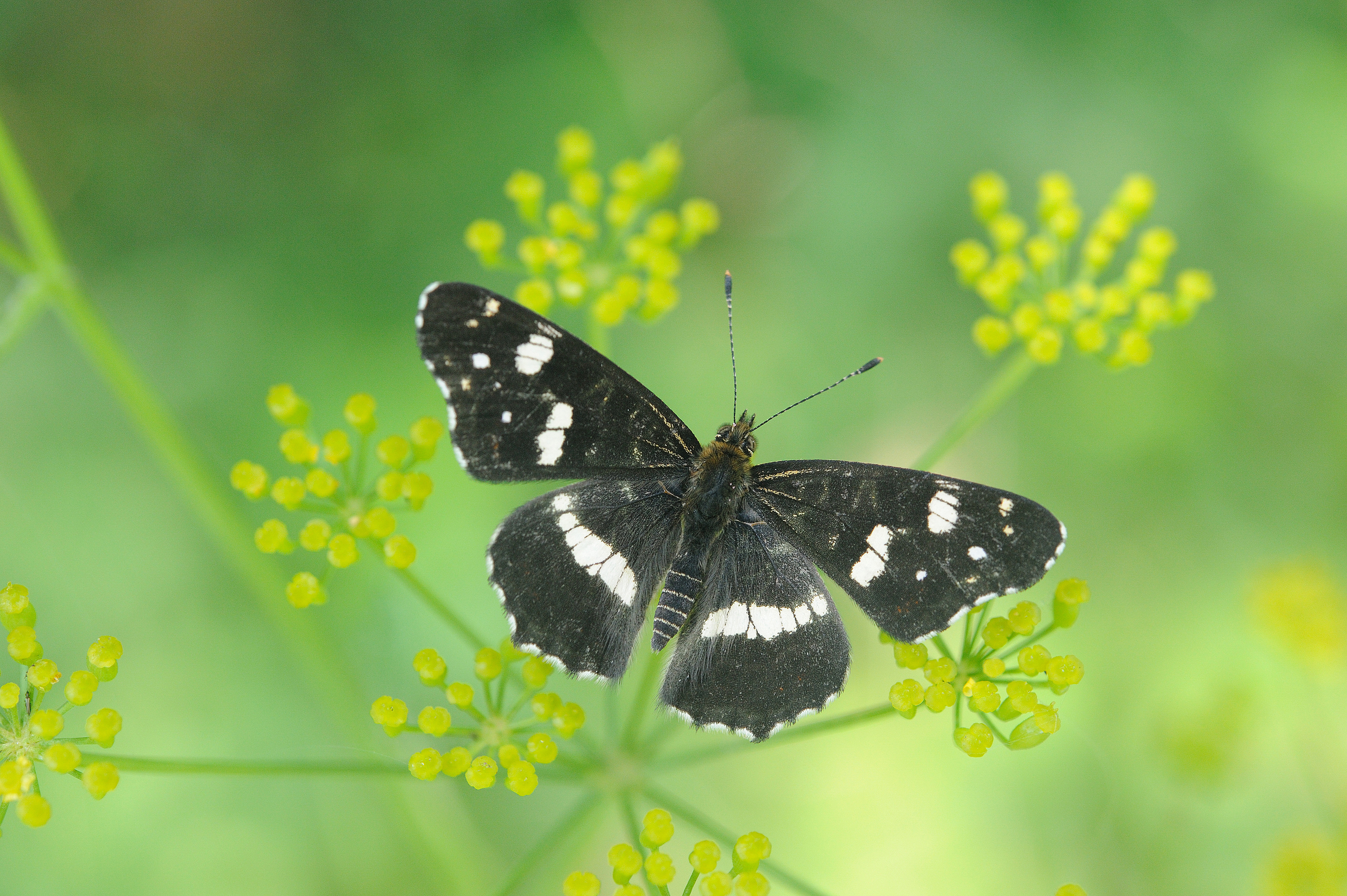 Araschnia levana, f. prorsa